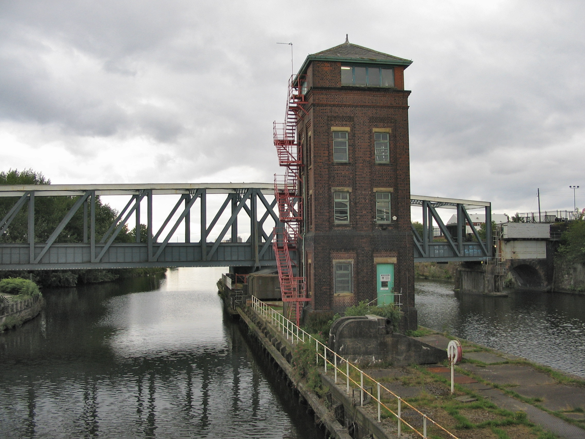 Barton Swing Aquaduct over het Manchester Ship Canal - eigen foto - augustus 2006